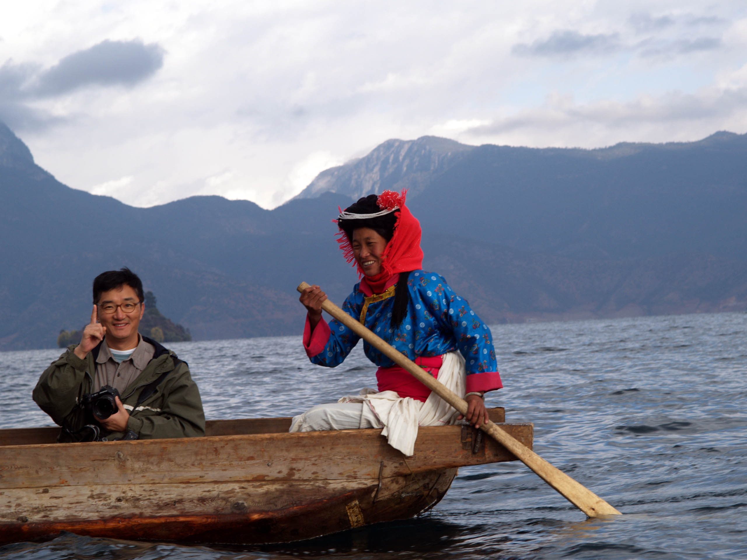 Photographer Seihon Cho, Lake Lugu